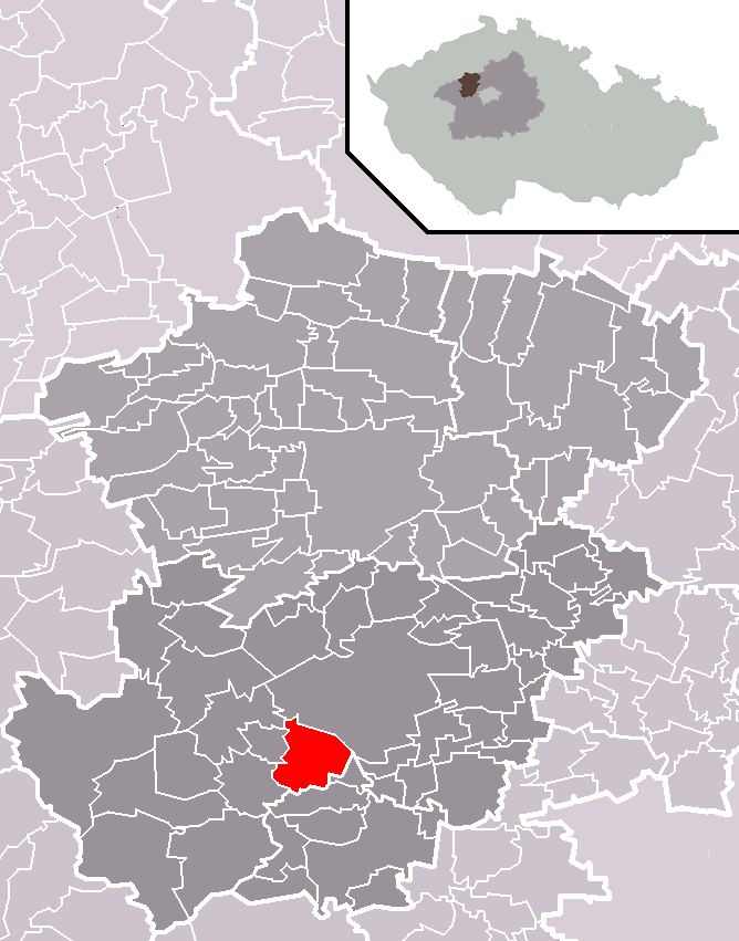 Location of Velká Dobrá municipality within Kladno District and administrative area of Kladno as a Municipality with Extended Competence.